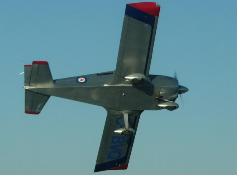 Bottom view of a 1970 model American Aviation AA-1 Yankee Clipper